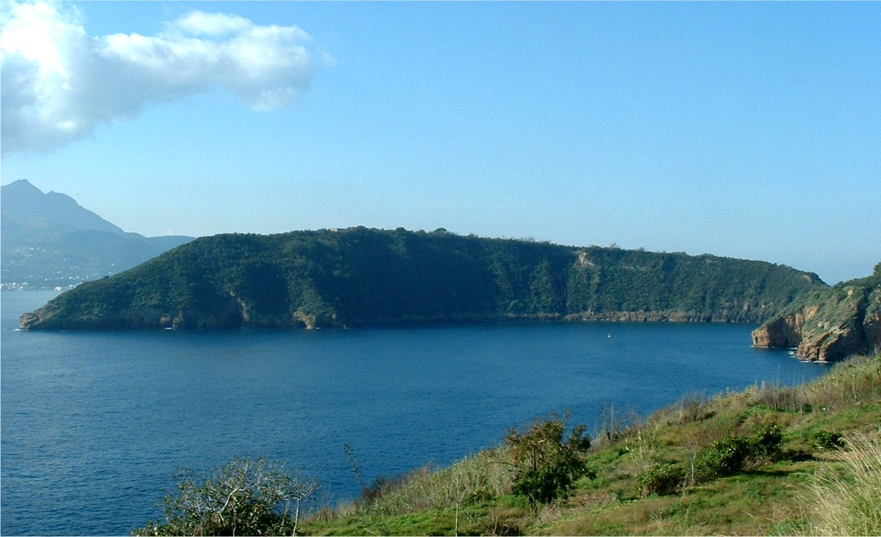 Views of Vivara from Cape Solchiaro, Procida - photo by utente:Retaggio